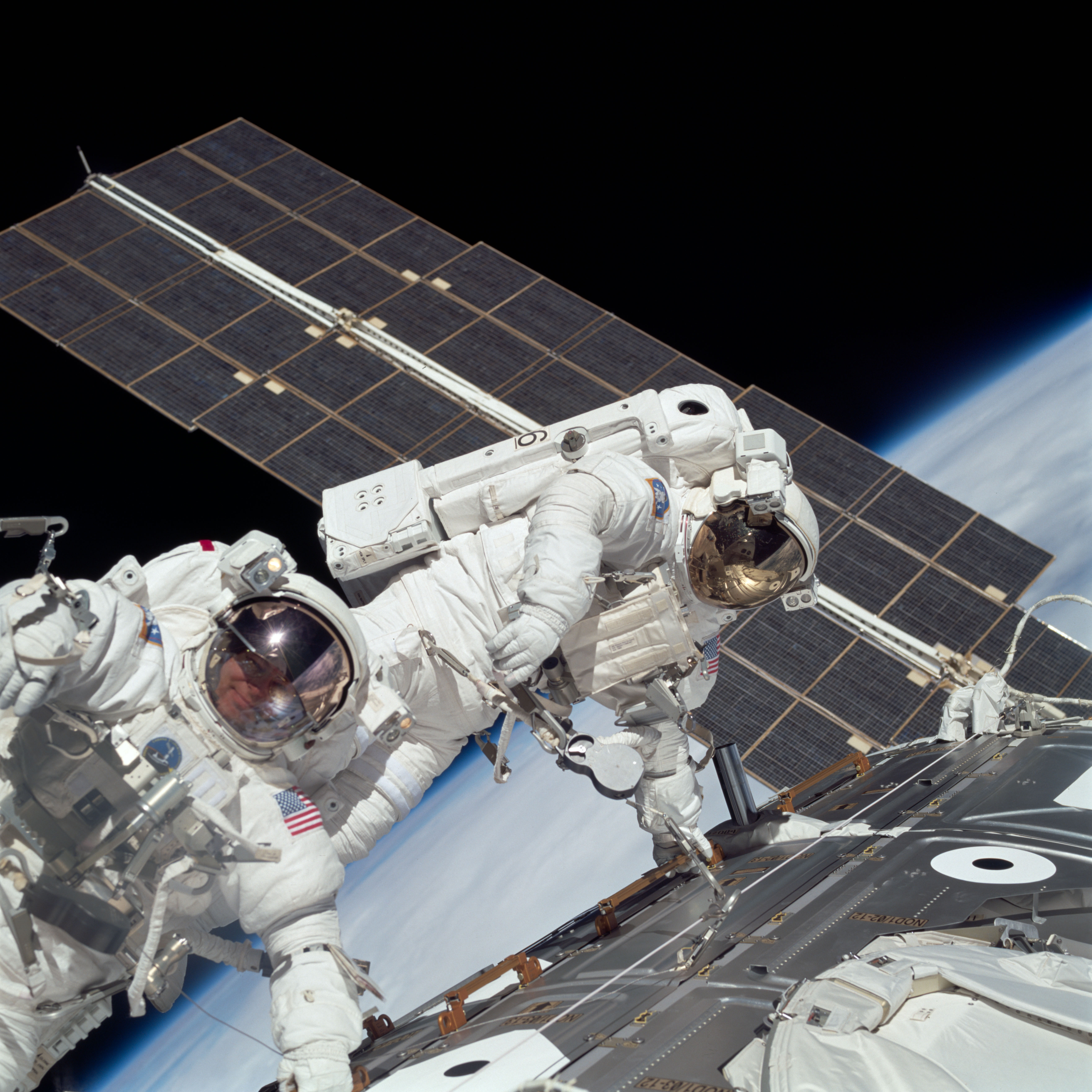 Astronauts Jerry L. Ross (left) and James H. Newman, both mission specialists, work together on the final of three space walks of the STS-88 mission. One of the solar panels of the Russian-built Zarya module runs through the frame.